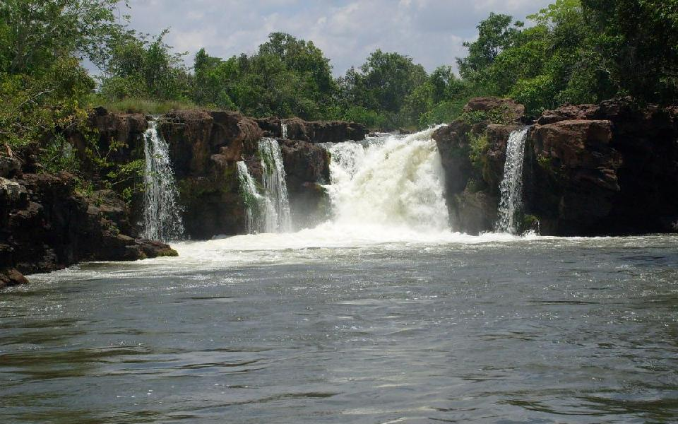 Waterfalls in Grajaú River